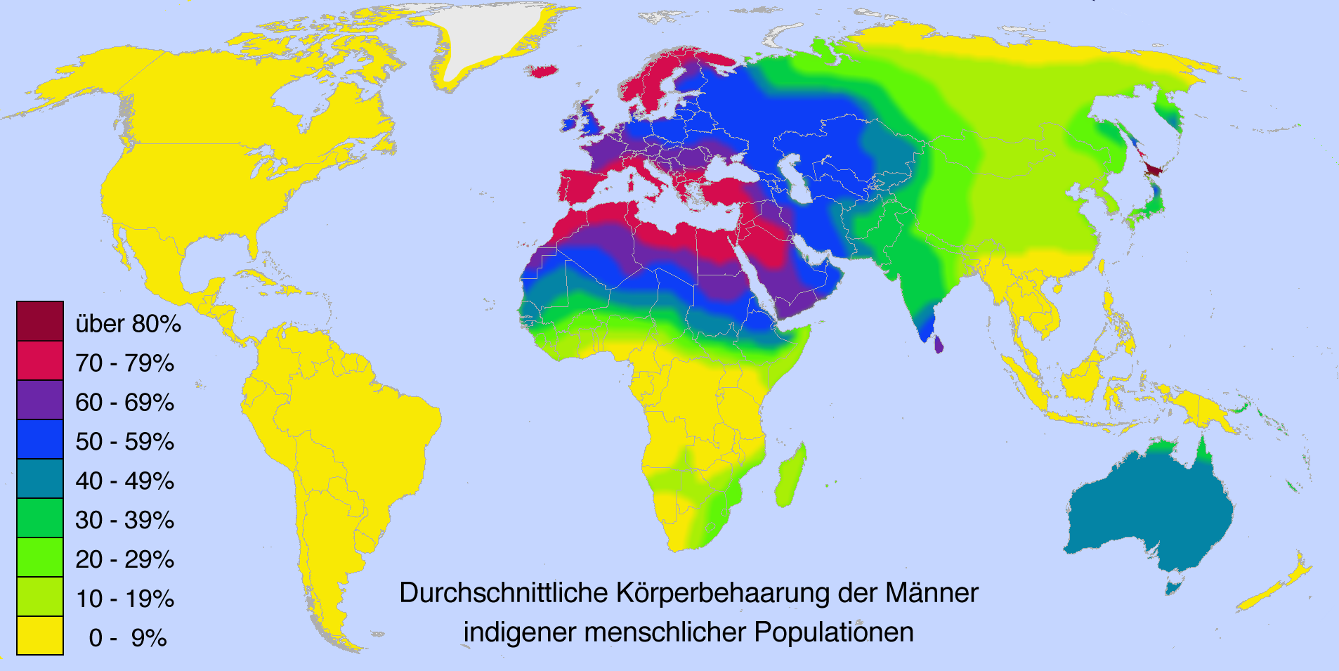 Hypothetic distribution of androgenic hair.